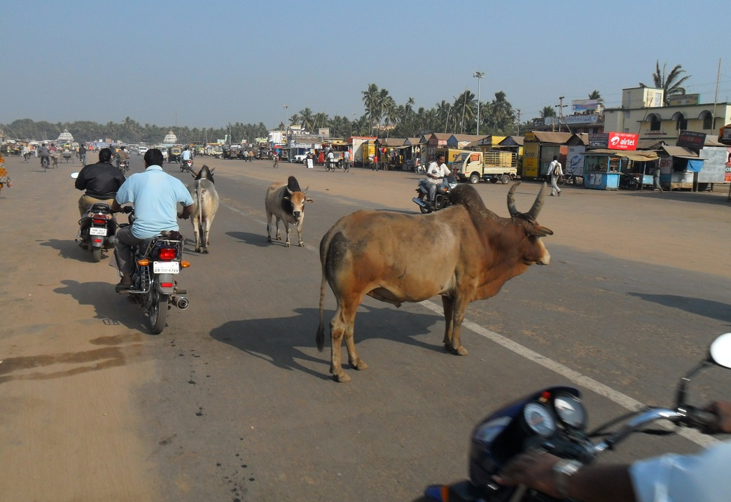 Ordinary roadblock in India